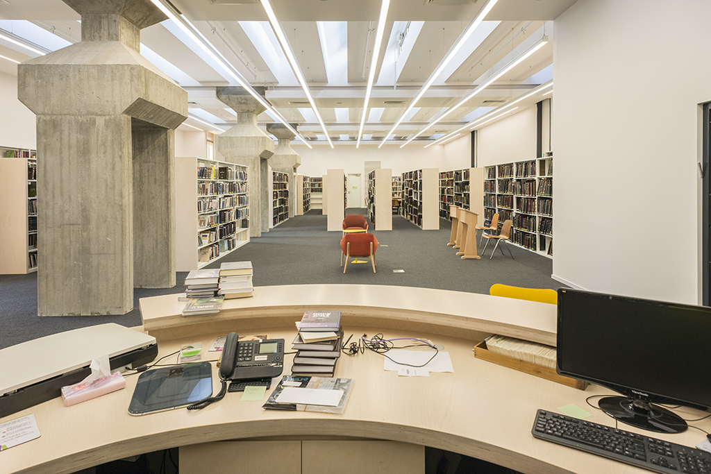 Interior view of the Rambam library, Tel Aviv-Yafo, Israel in November 2018